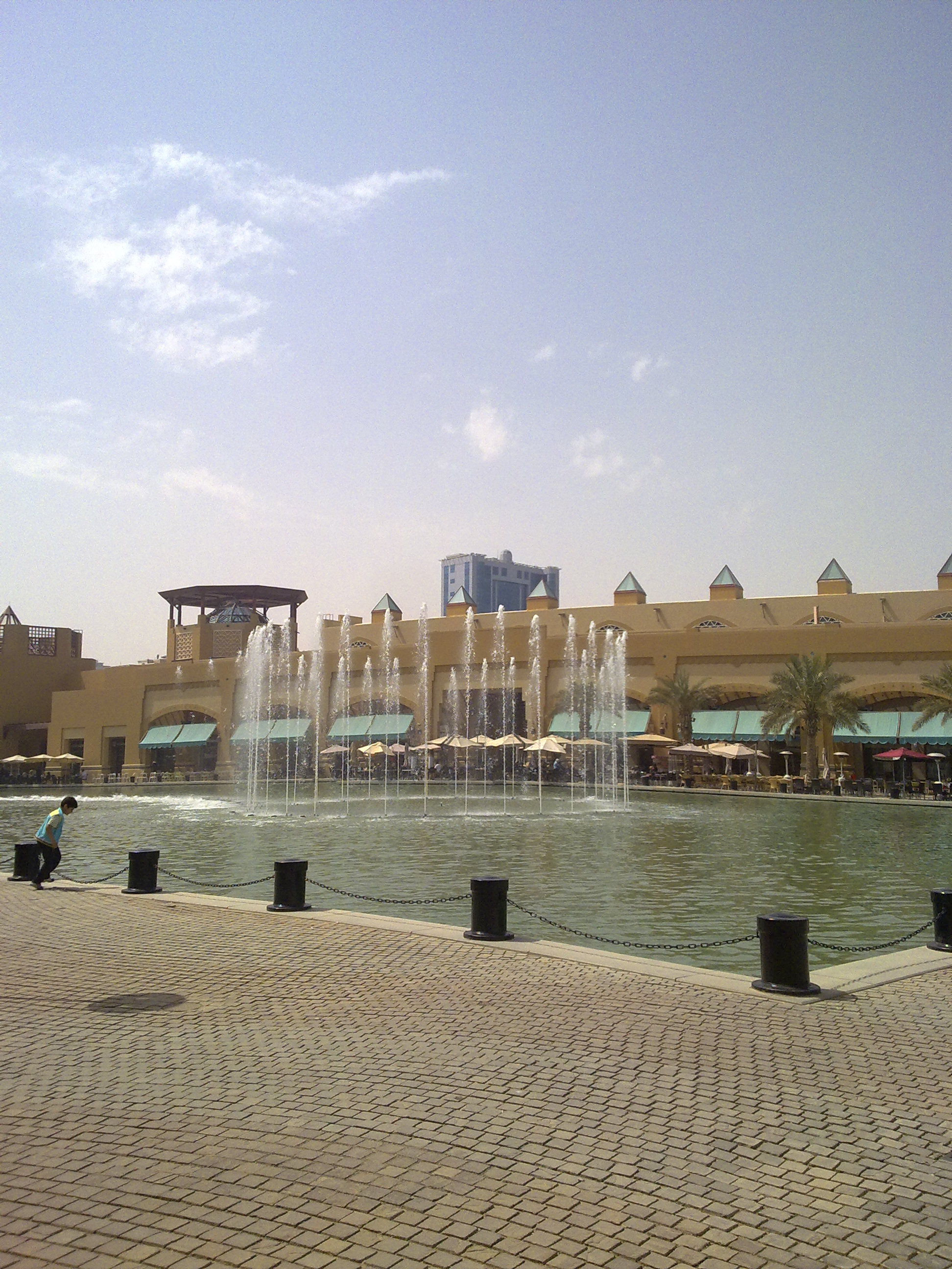 .By irvin calicut . al kouth mall water fountain from kuwait